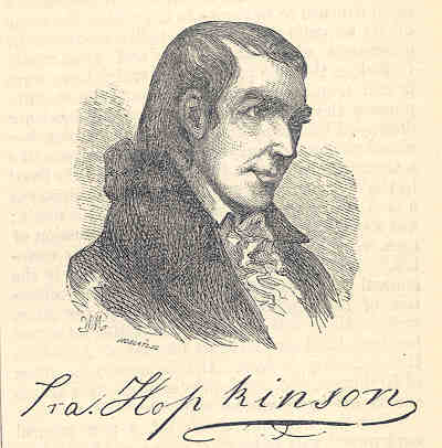 Francis Hopkinson (1737–1791), an American author, and one of the signers of the Declaration of Independence.